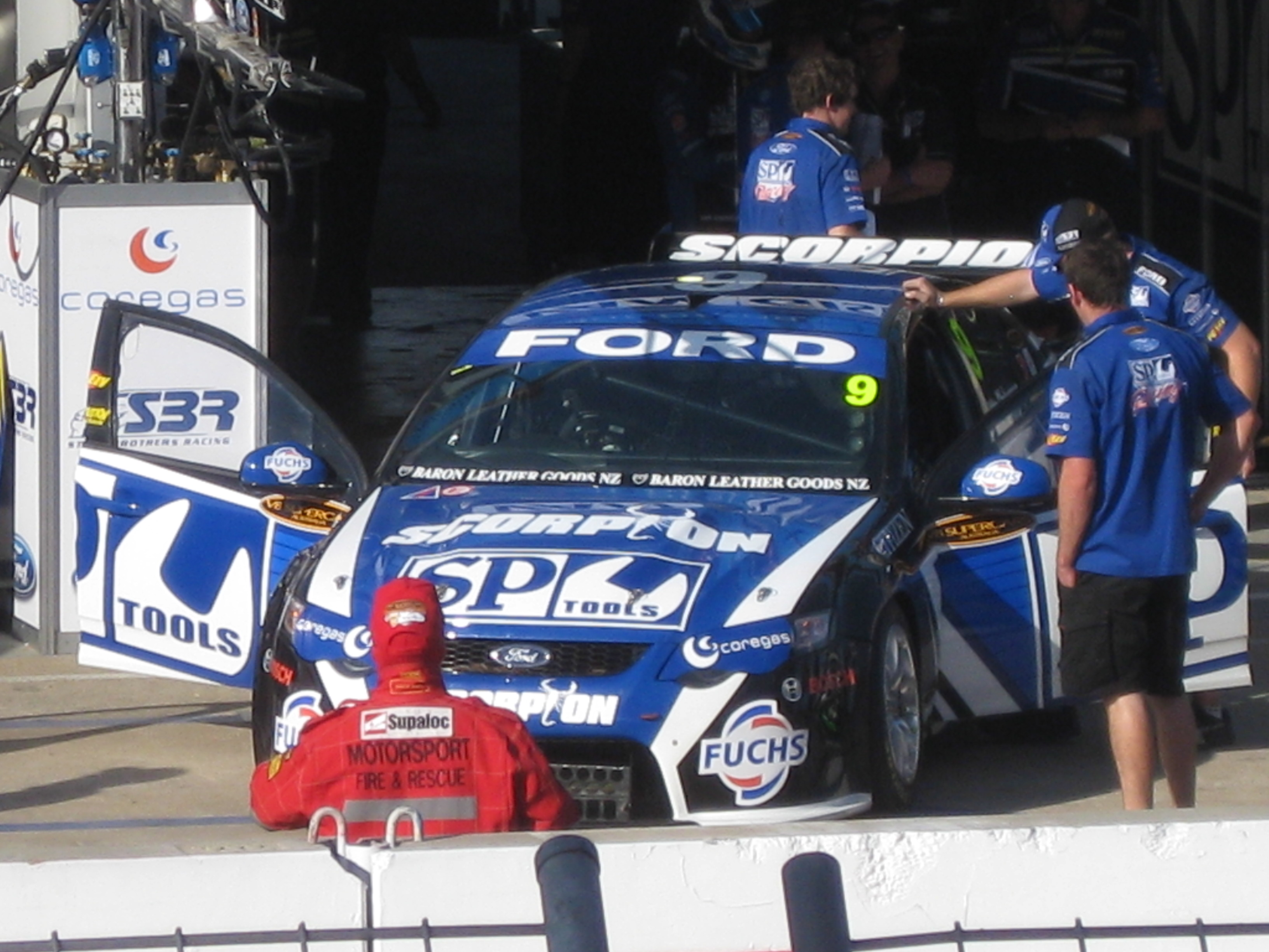 The Ford FG Falcon of Shane van Gisbergen at the 2010 Clipsal 500 Adelaide.